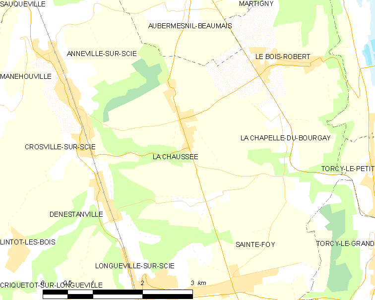 Map of French municipality La Chaussée